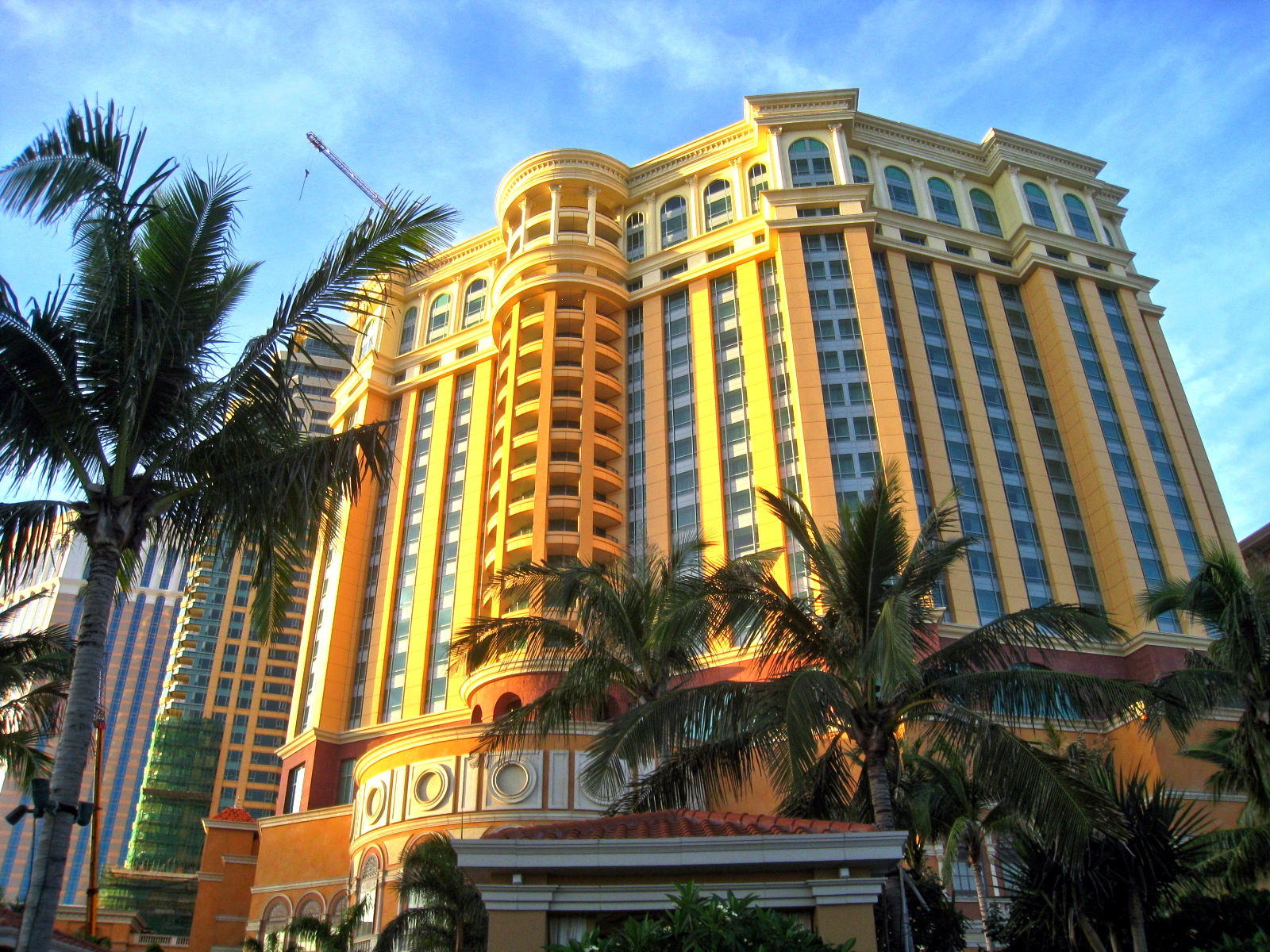 Four Seasons Hotel & Resort Macao 四季酒店 (澳門)